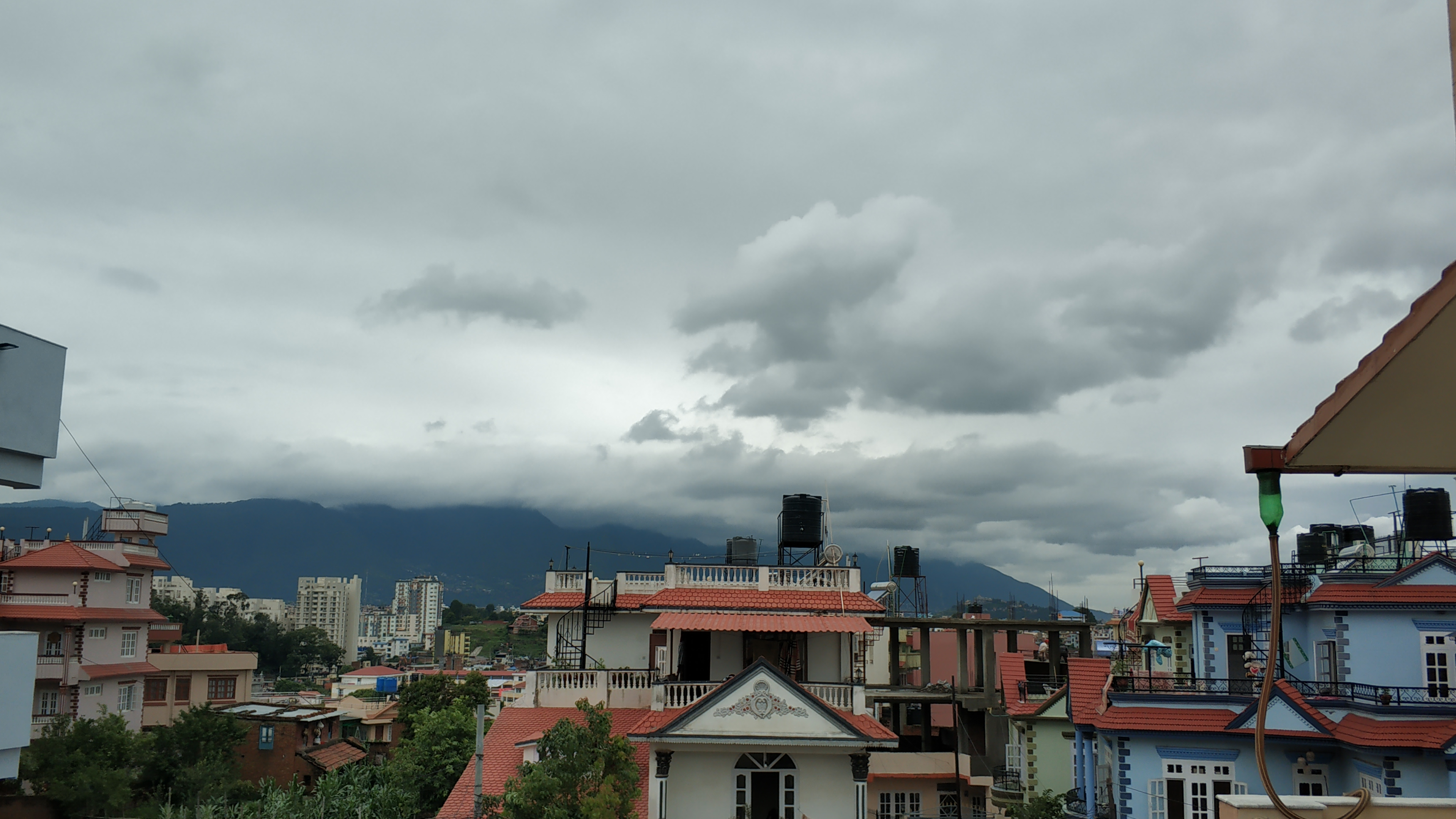 Kathmandu valley.